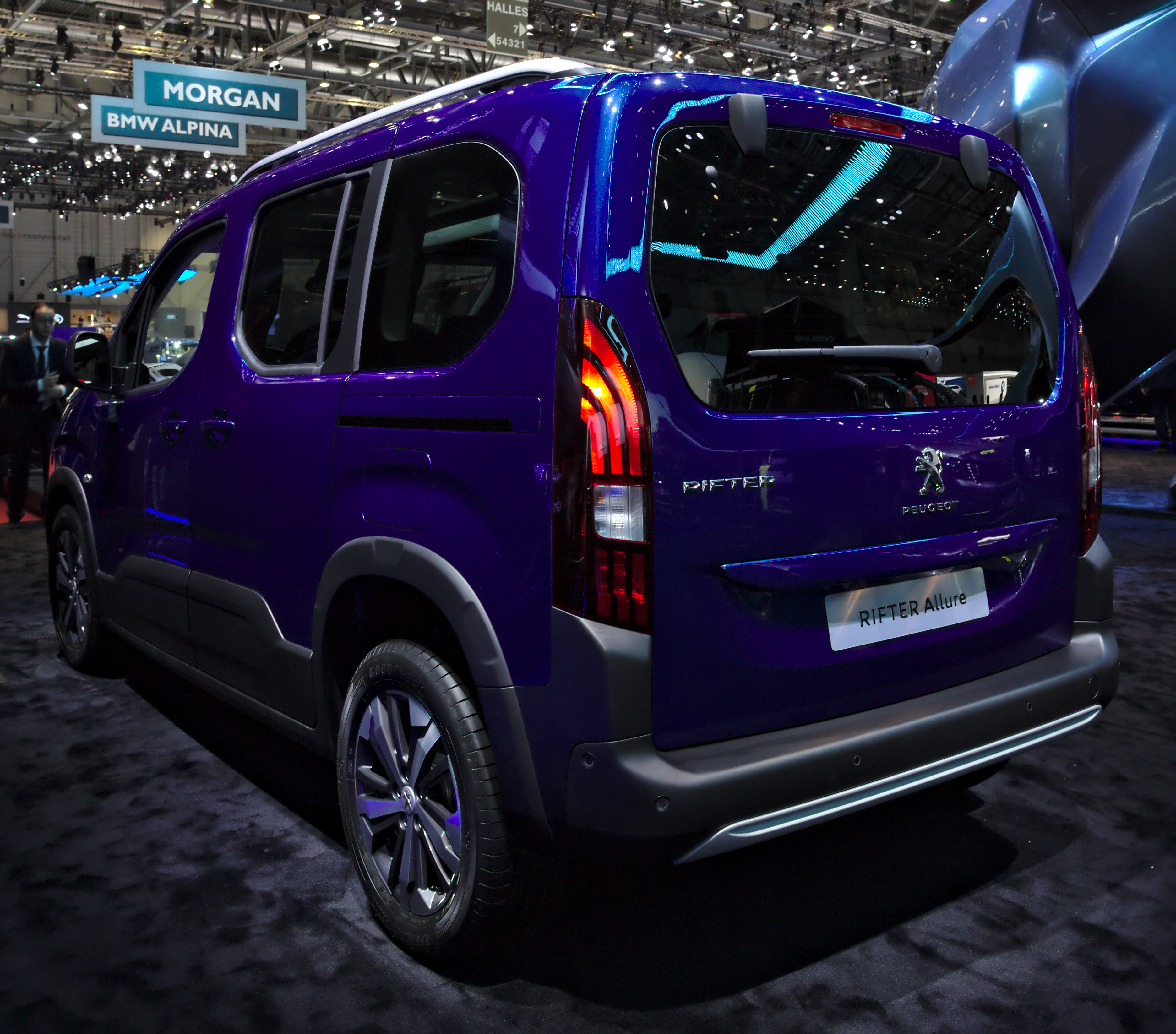 Peugeot Rifter at Geneva Motorshow 2018